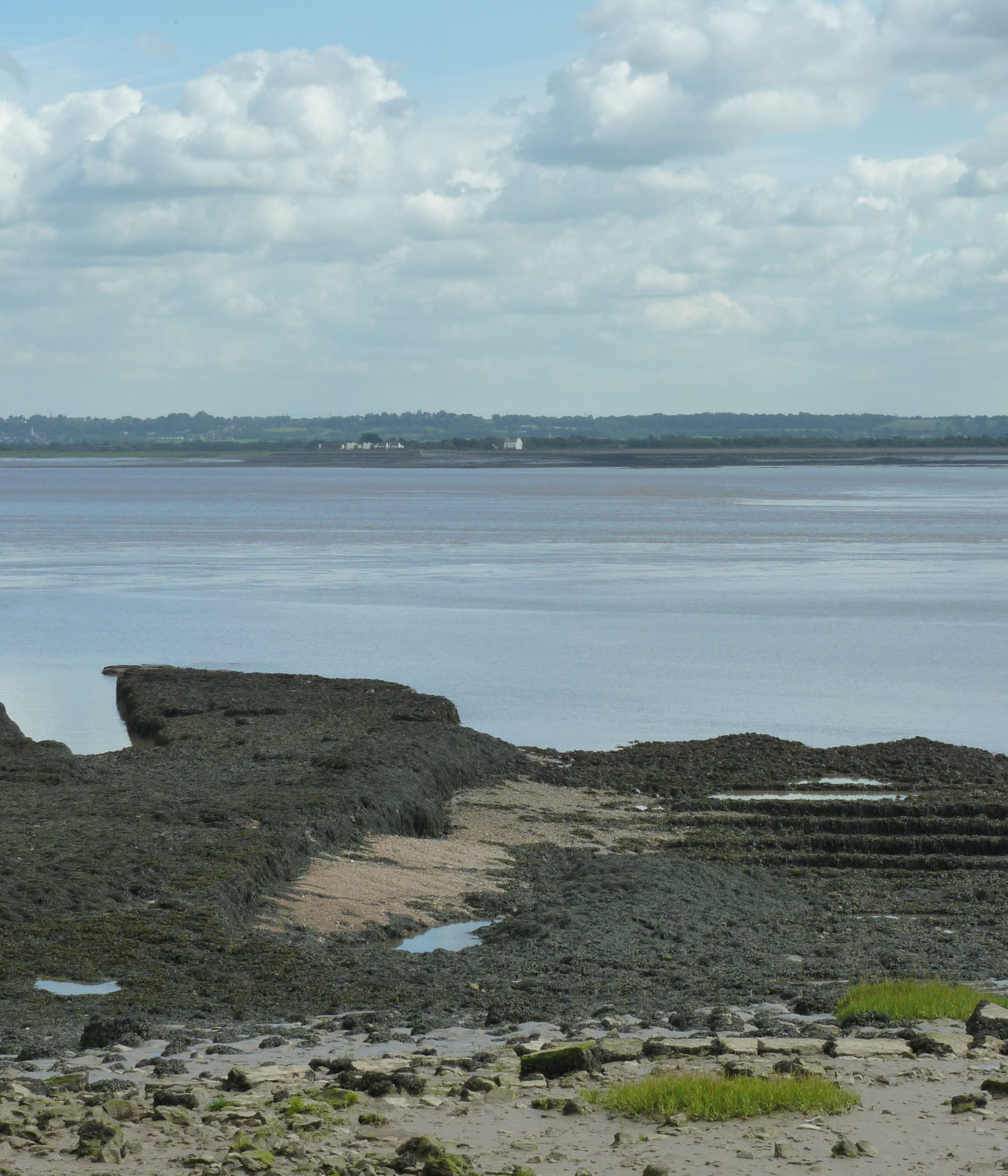 New Passage Ferry, looking across to Gloucestershire from the remains of the pier foundations at Portskewett